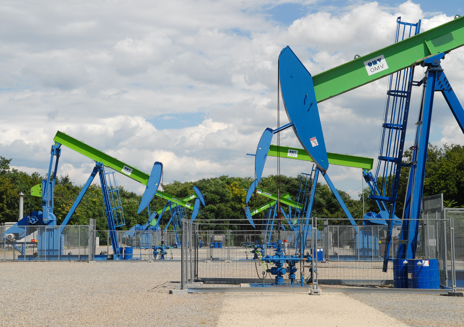 Pump jacks at the Spannberg oil field in Lower Austria